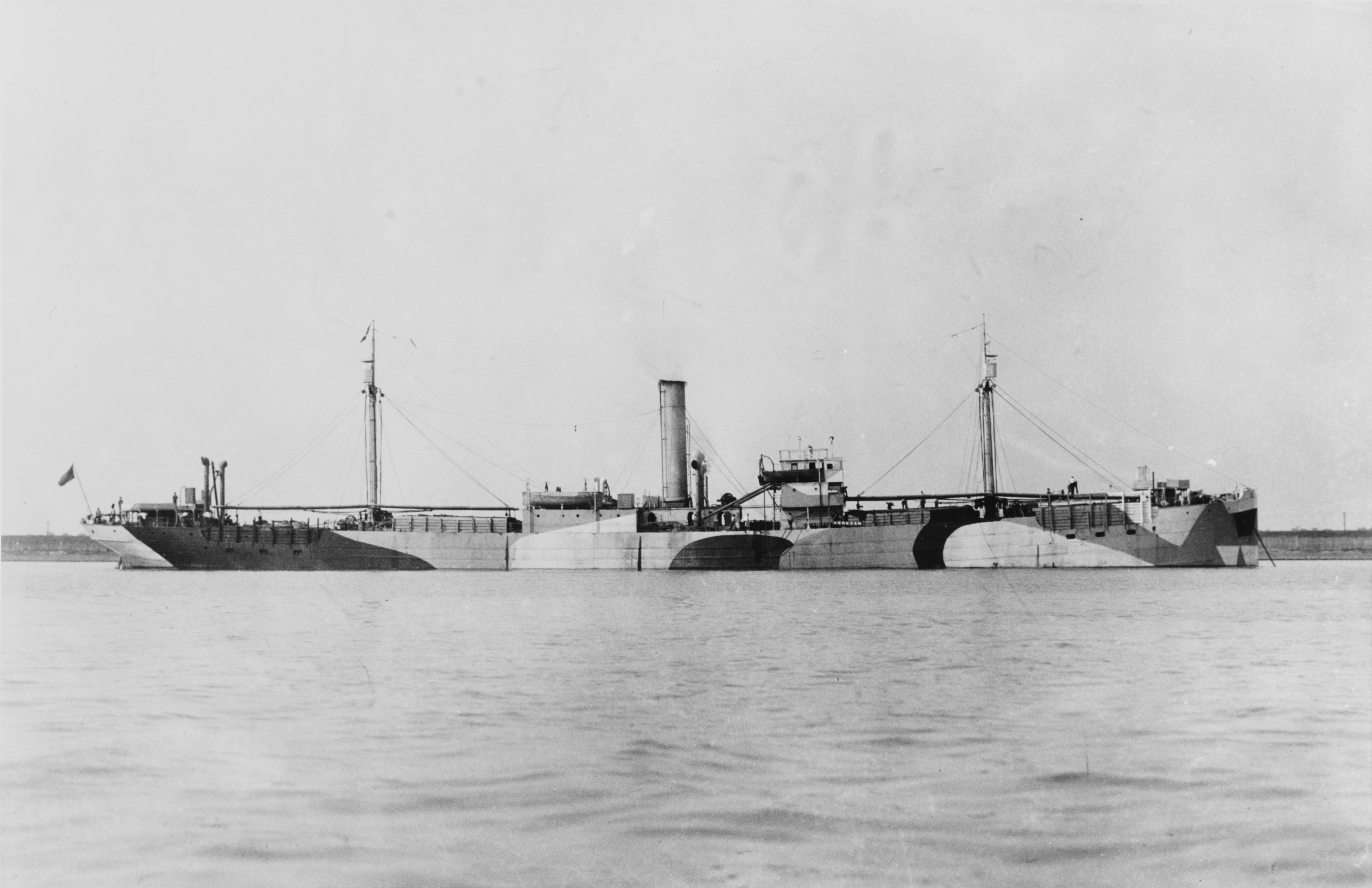 (ID # 1806) Photographed circa late 1918, while painted in World War I dazzle camouflage. This British-built freighter was the former Austro-Hungarian Erodiade. Photograph from the Bureau of Ships Collection in the U.S. National Archives.